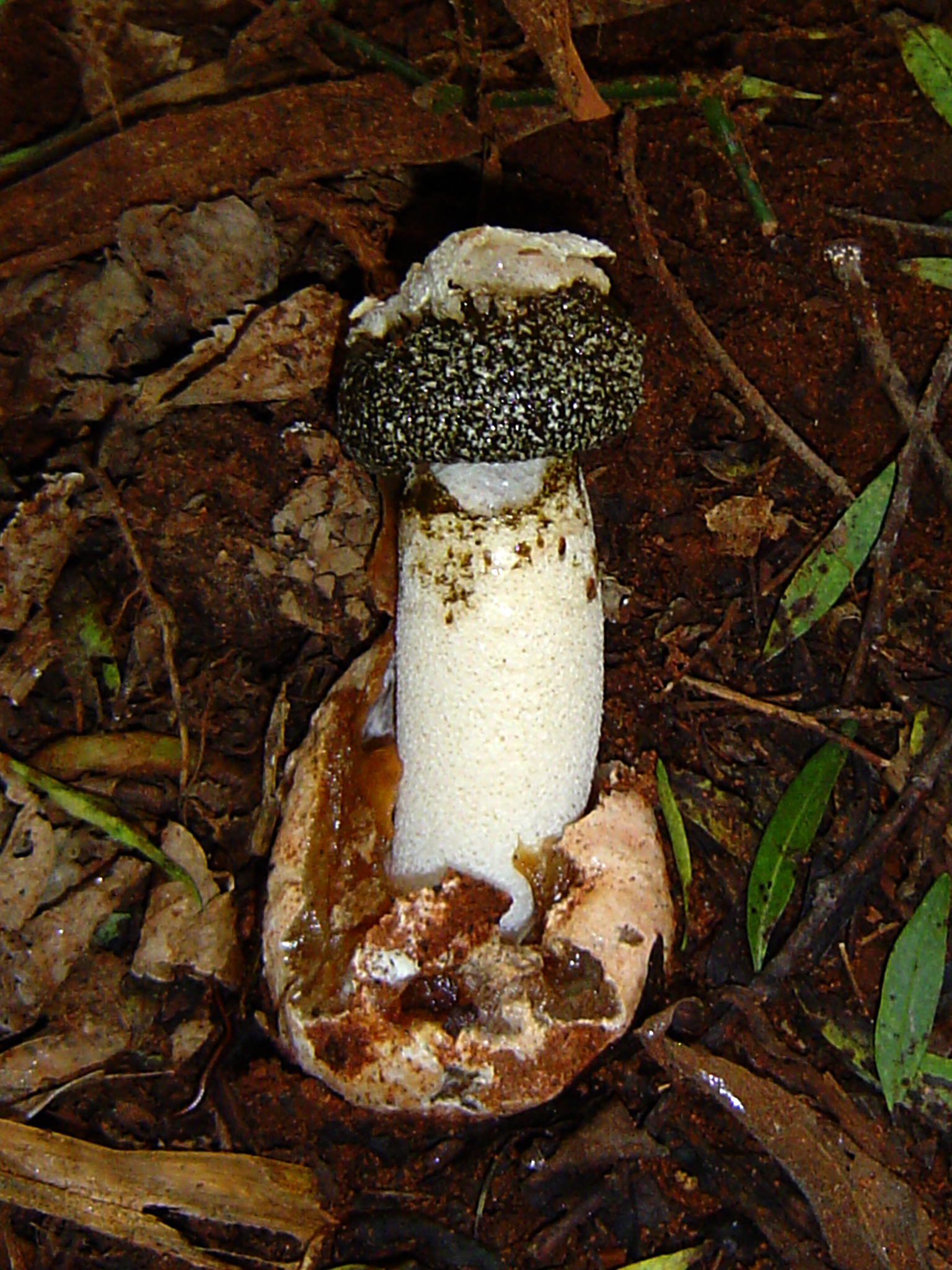 A fruit body of the stinkhorn fungus Itajahya galericulata Möller. Specimen photographed in Pretoria, South Africa.